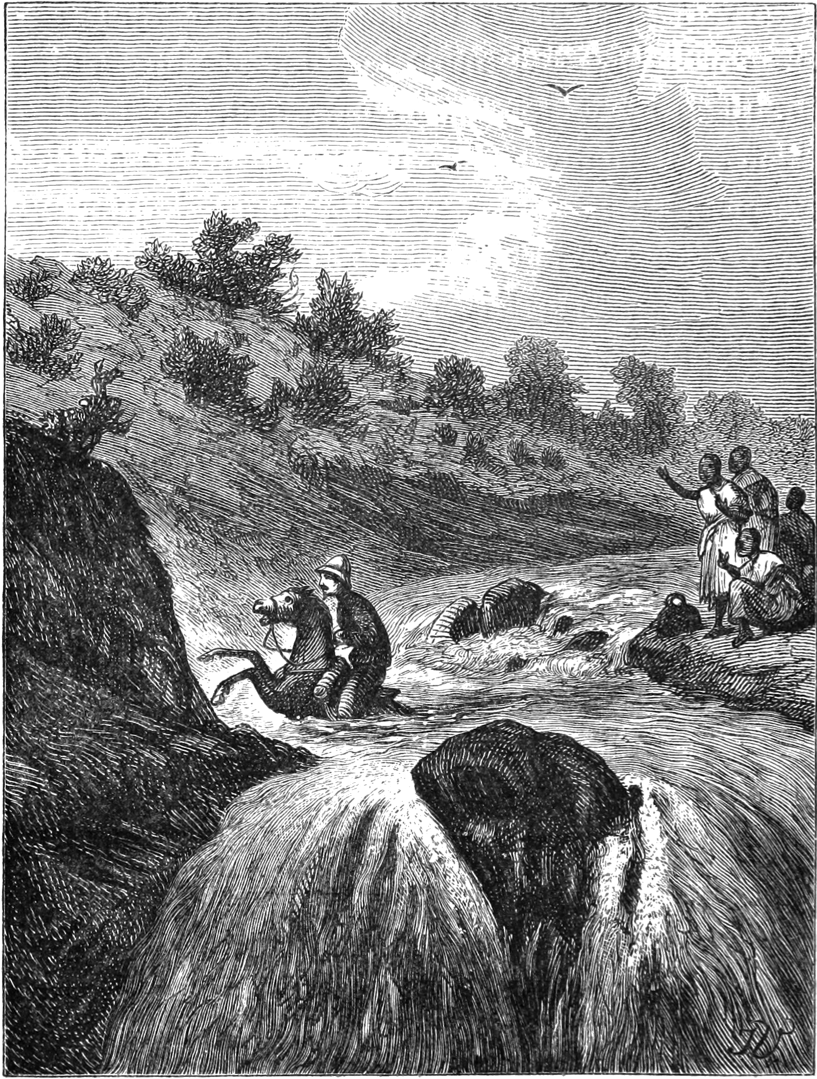 Narrow escape near Cradock, from the book Seven Years in South Africa, volume 2, page